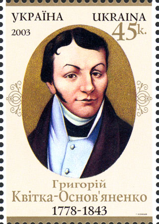 Stamp of Ukraine